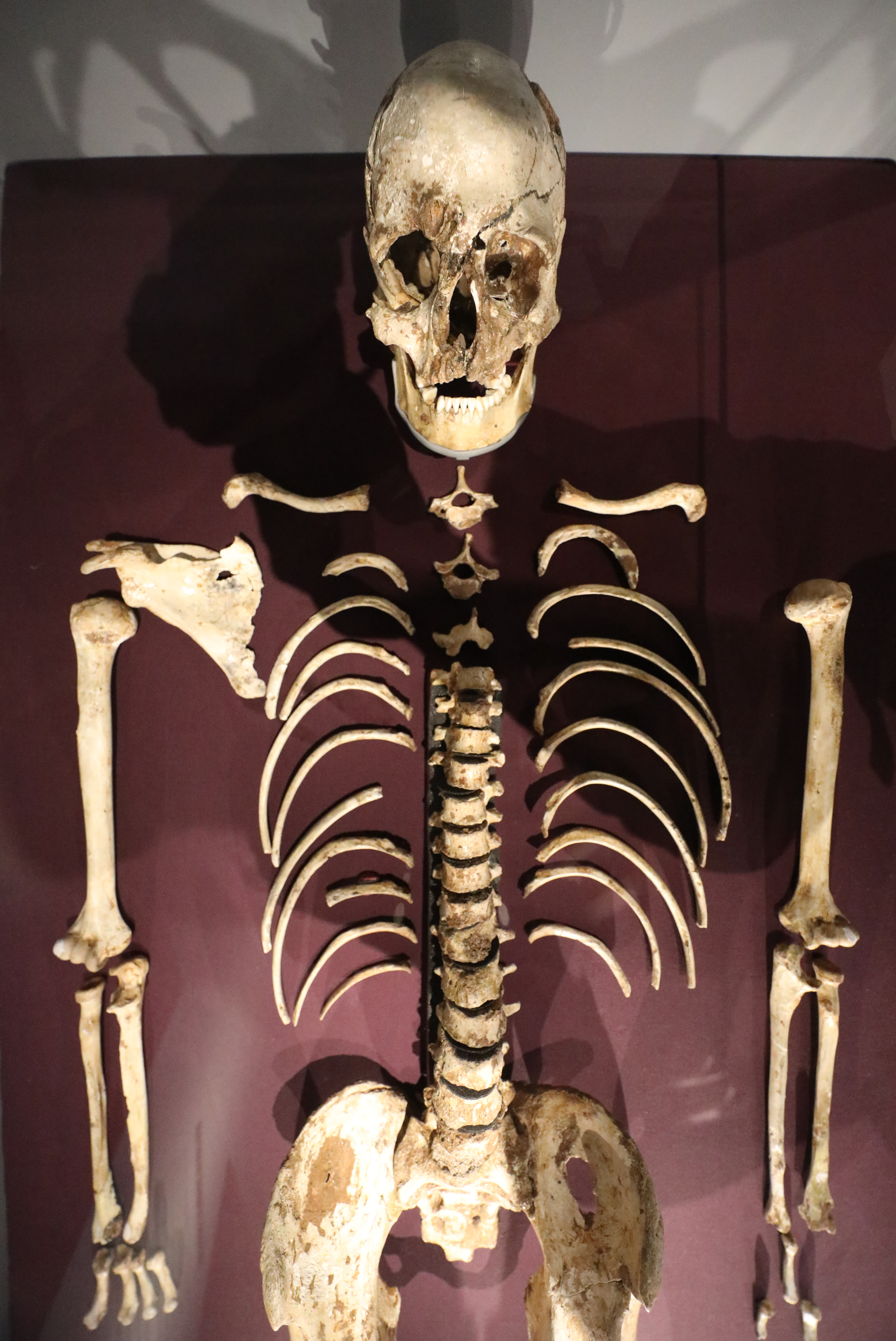 Photo of the upper body of the cheddar man